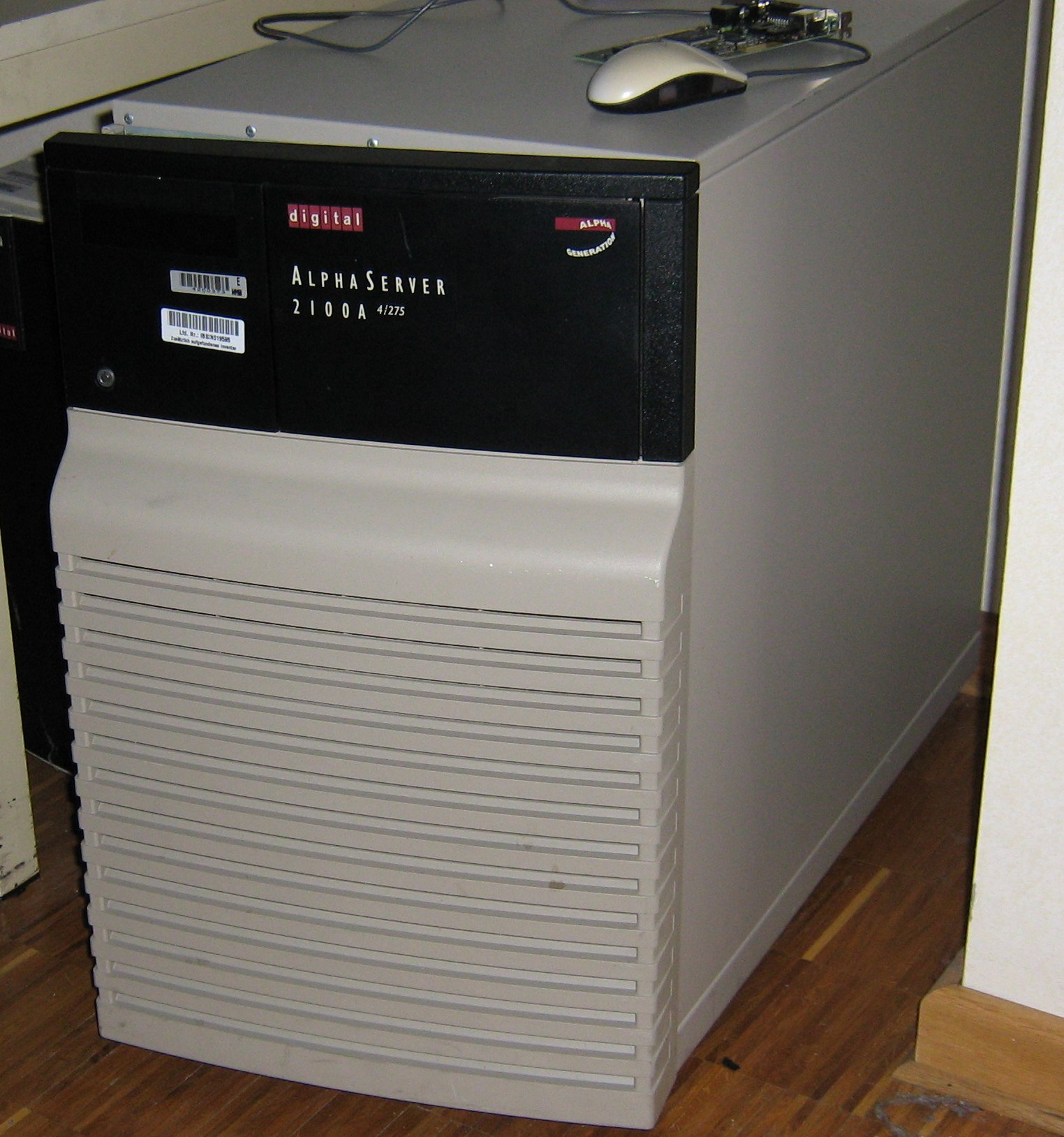 A DEC AlphaServer 2100A 4/275 (“Lynx”), pedestal chassis.